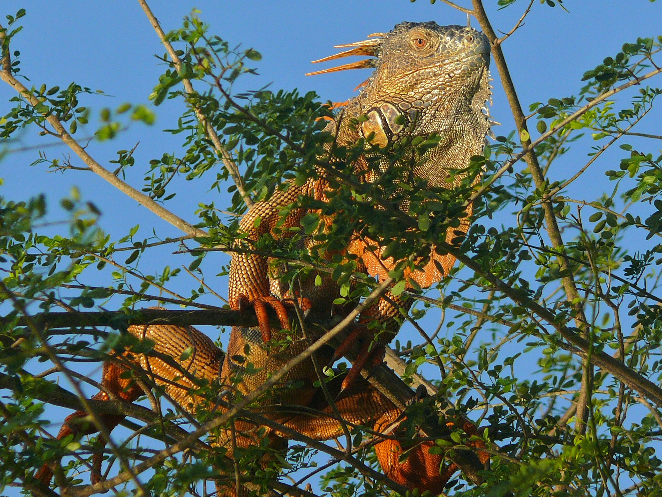 Crooked Tree Wildlife Sanctuary, BELIZE